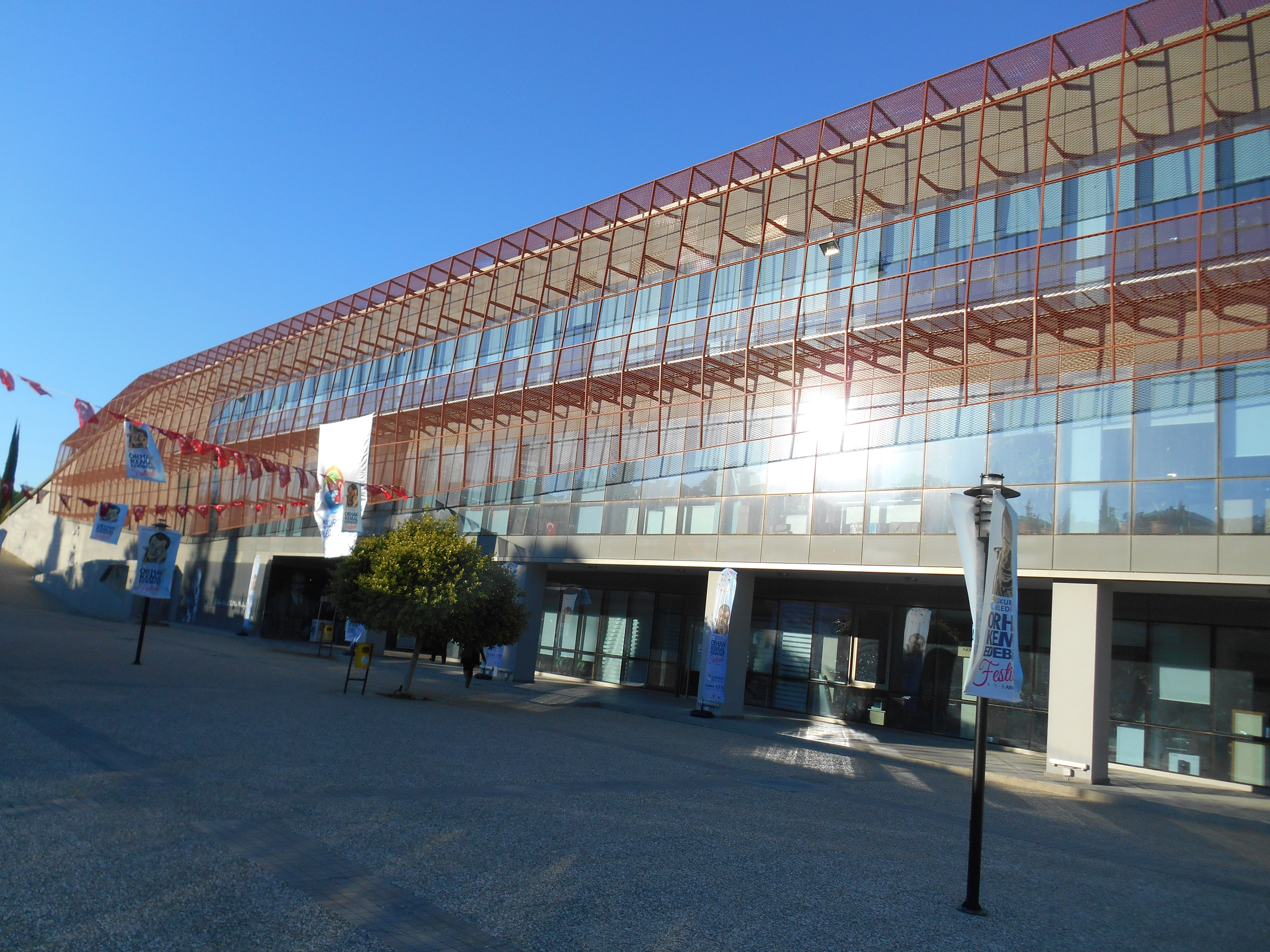 General view